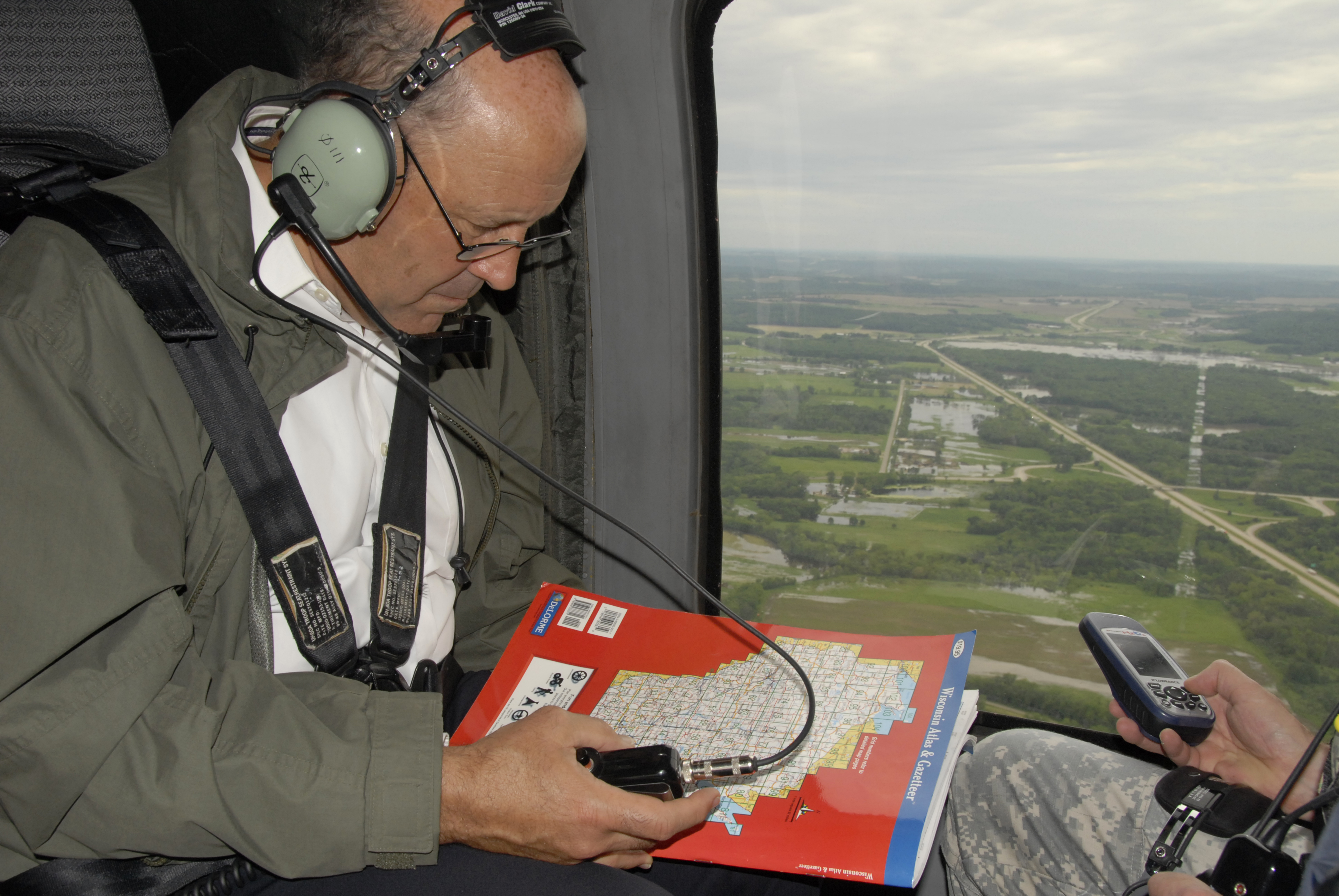 Wisconsin State Governor Jim Doyle along with representatives from key state and local government agencies perform an initial flood damage assessment of southern Wisconsin from onboard a UH-60 Blackhawk helicopter June 9, 2008. Serious flooding throughout Wisconsin prompted the governor to declare a state of emergency, allowing the State Adjutant General, U.S. Air Force Brig. Gen. Don Dunbar to activate National Guard troops to assist in the relief effort. (U.S. Air Force photo by Master Sgt. Paul Gorman/Released)